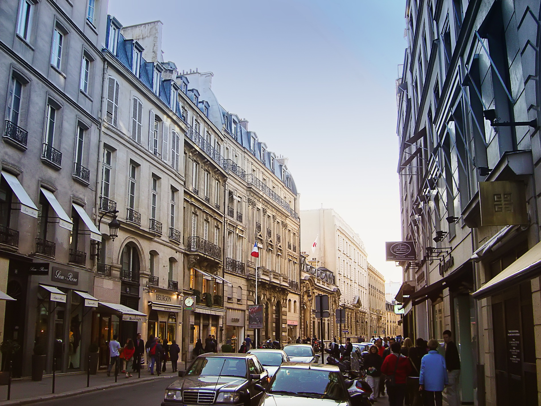 rue du Faubourg Saint Honoré photo by myself, March 19, 2005; touched-up colors